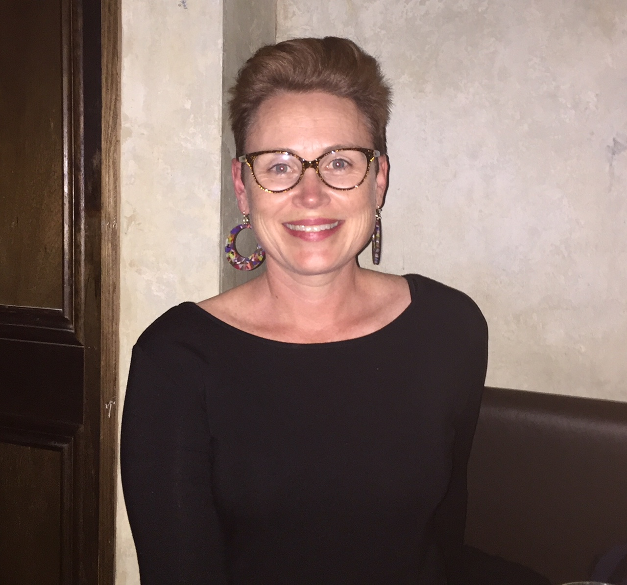 Professor Renae M. Ryan iDirector of the Science in Australia Gender Equity Program at University of Sydney, and a researcher in Neuroscience, Pharmacology, and Membrane Transport Proteins, at a Sydney STEMMist Book Club meeting. See @STEMMinist on Twitter for further details.